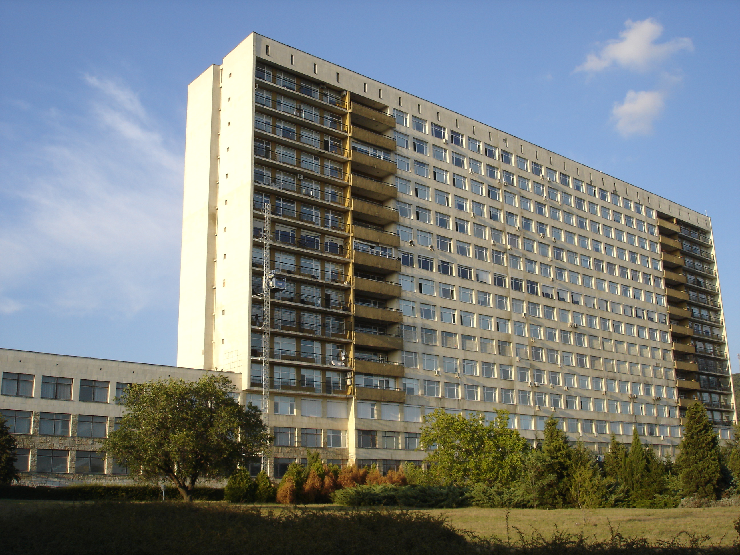 St. Marina University Hospital in Varna, Bulgaria